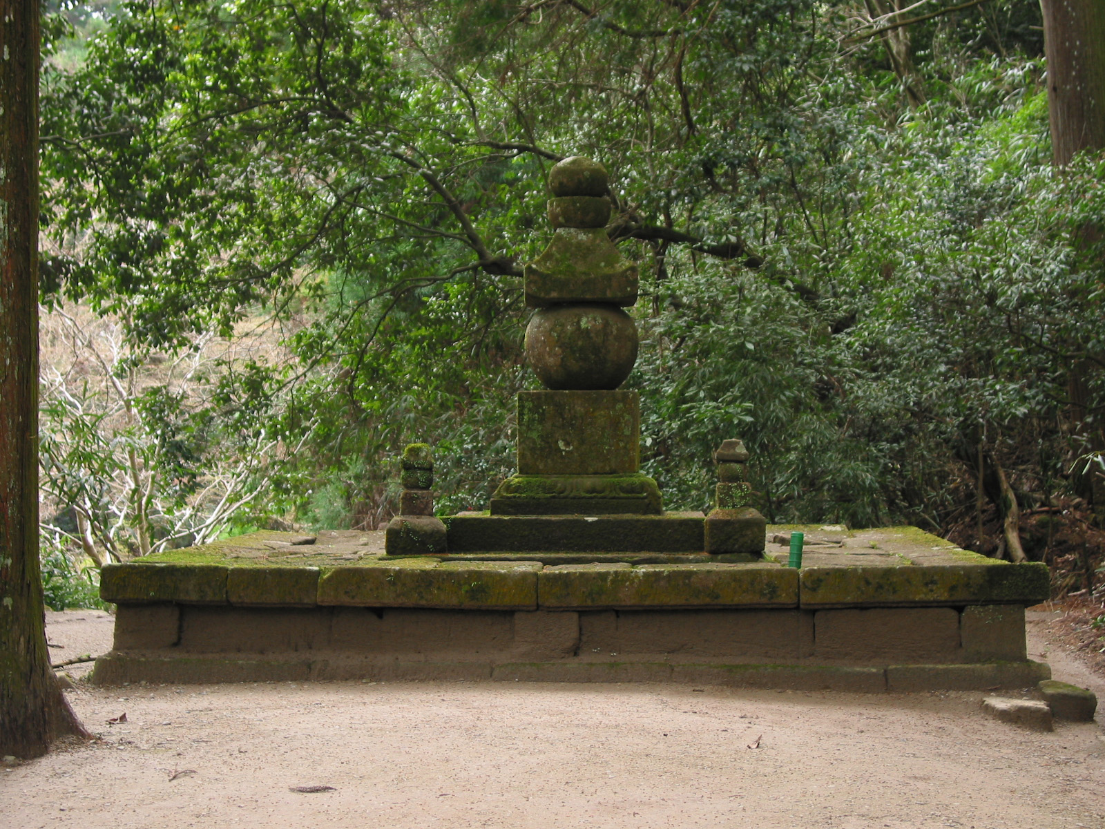 Gorintō (五輪塔, "five-ringed tower") at Murouji, Uda, Nara, Japan. It has been said that this Gorintō is a Kitabatake Chikafusa’s gravestone. It has Japanese Important Cultural Property status. 真言宗室生寺派大本山室生寺内にある五輪塔 （伝）北畠親房の墓 室町時代前期 重要文化財 （建造物） 奈良県宇陀市室生区室生で撮影